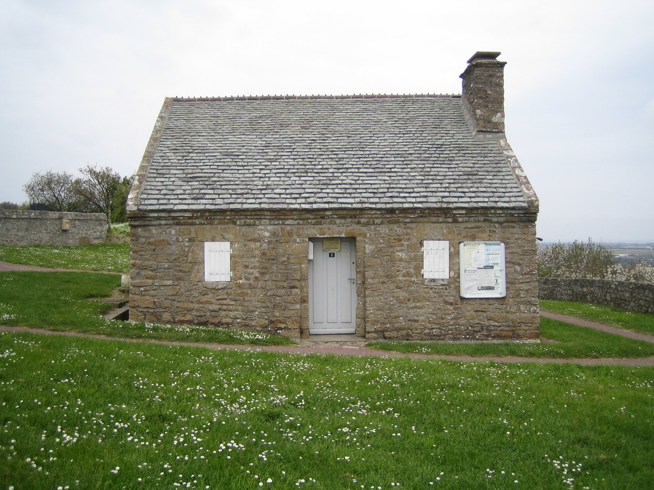 Town hall in La Pernelle (Manche, France, near Cherbourg) : one of the smallest town halls in France.